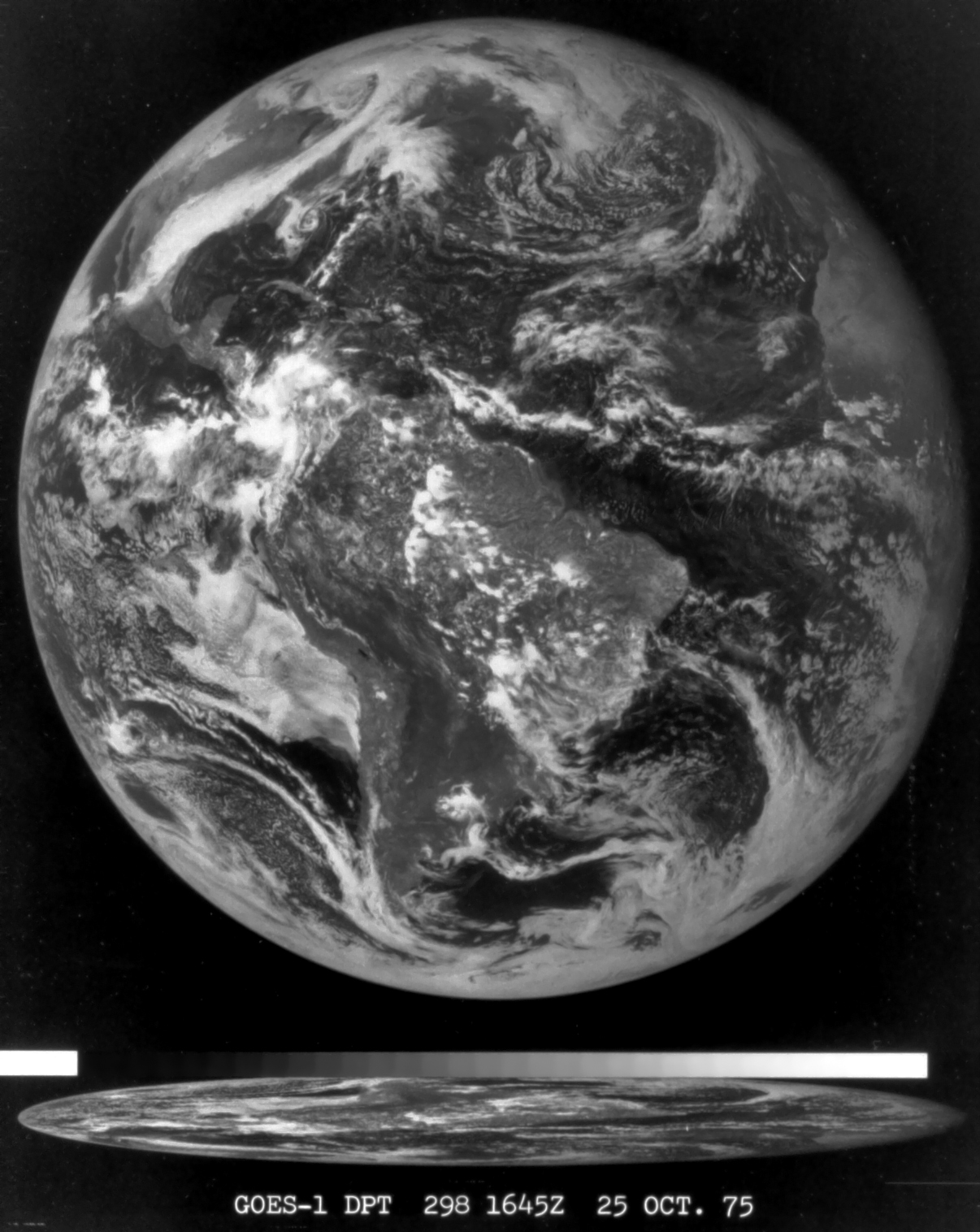 The first image obtained from a GOES satellite. These satellites are put in geostationary orbit over 22, 000 miles from Earth and continuously monitor a significant portion of a hemisphere of the Earth.